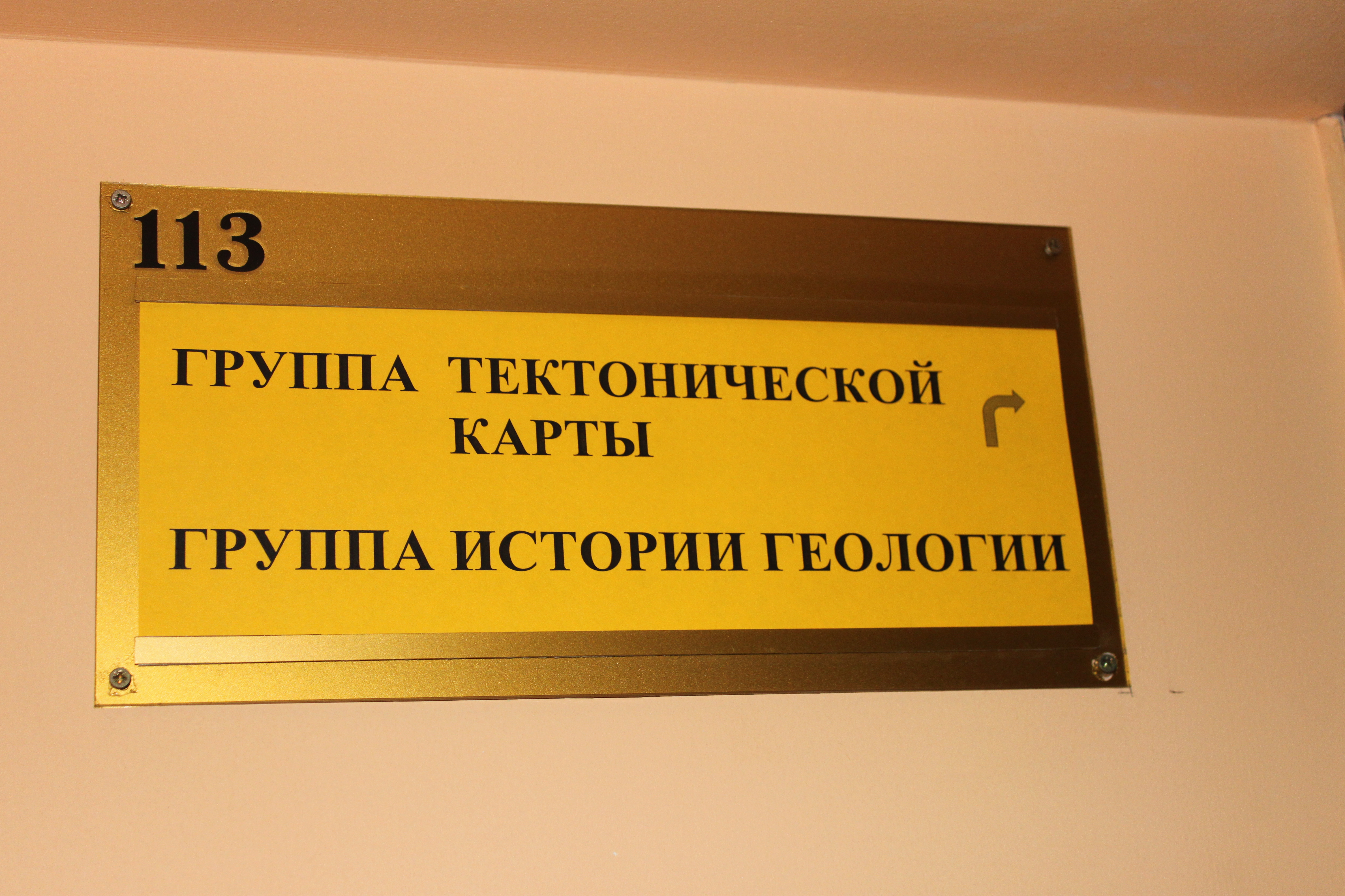 Wikitrip to Geography Institute RAS 2019-12-19.